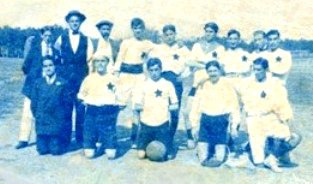 Racing Club of Tunis